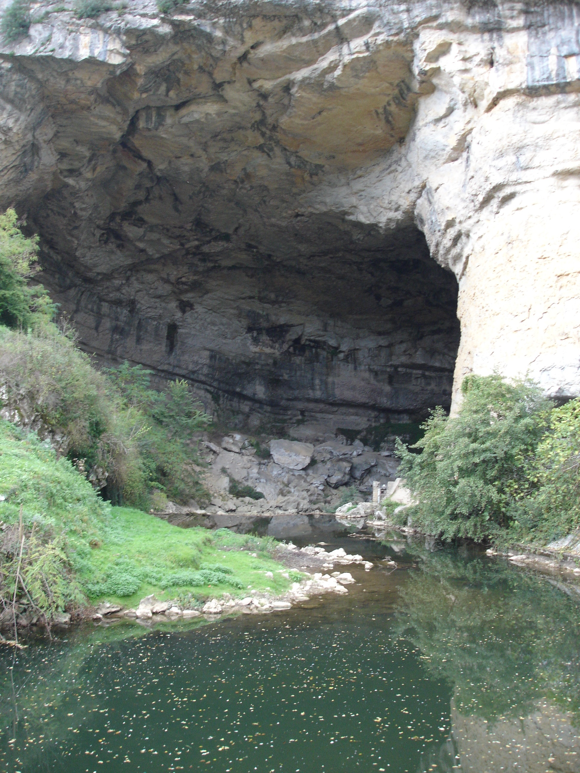 Entrée Sud de la Grotte du Mas d'Azil, Ariège, France